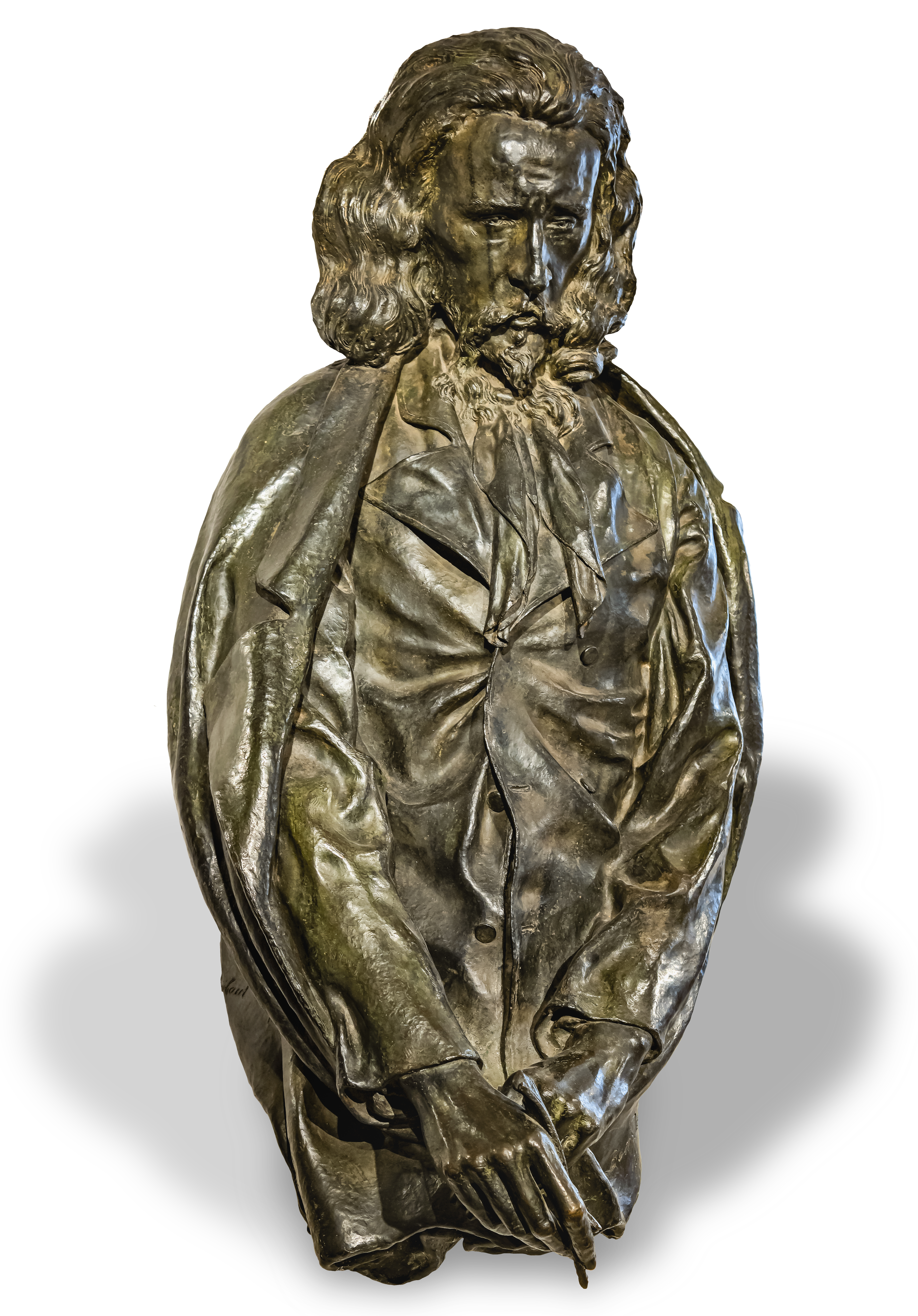 Depicted person: Léon Cladel – French writer